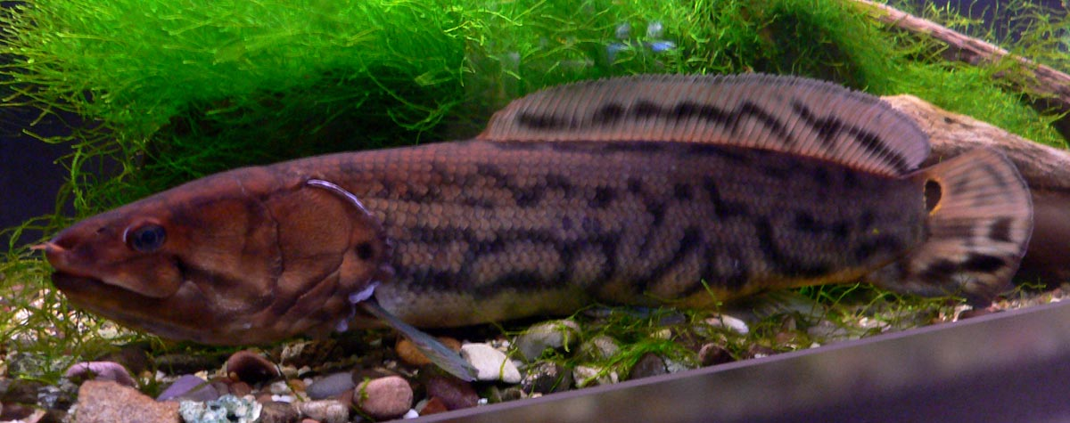 Photo of Amia calva (bowfin) at the Steinhart Aquarium in San Francisco